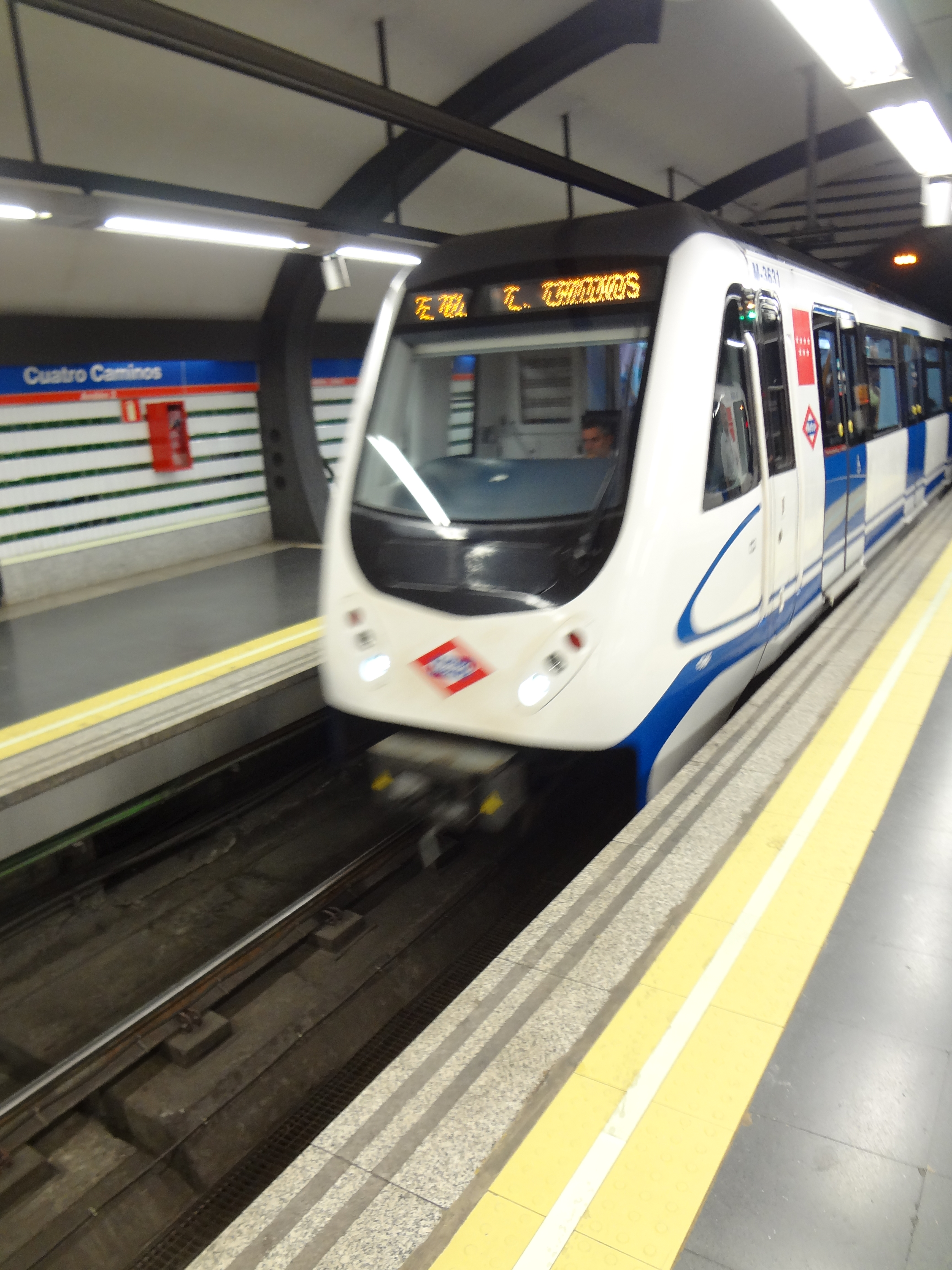 (Madrid Metro) Cuatro Caminos